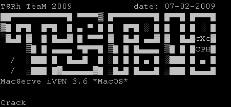 FILE_ID.DIZ (Screendump of Code page 437 text)